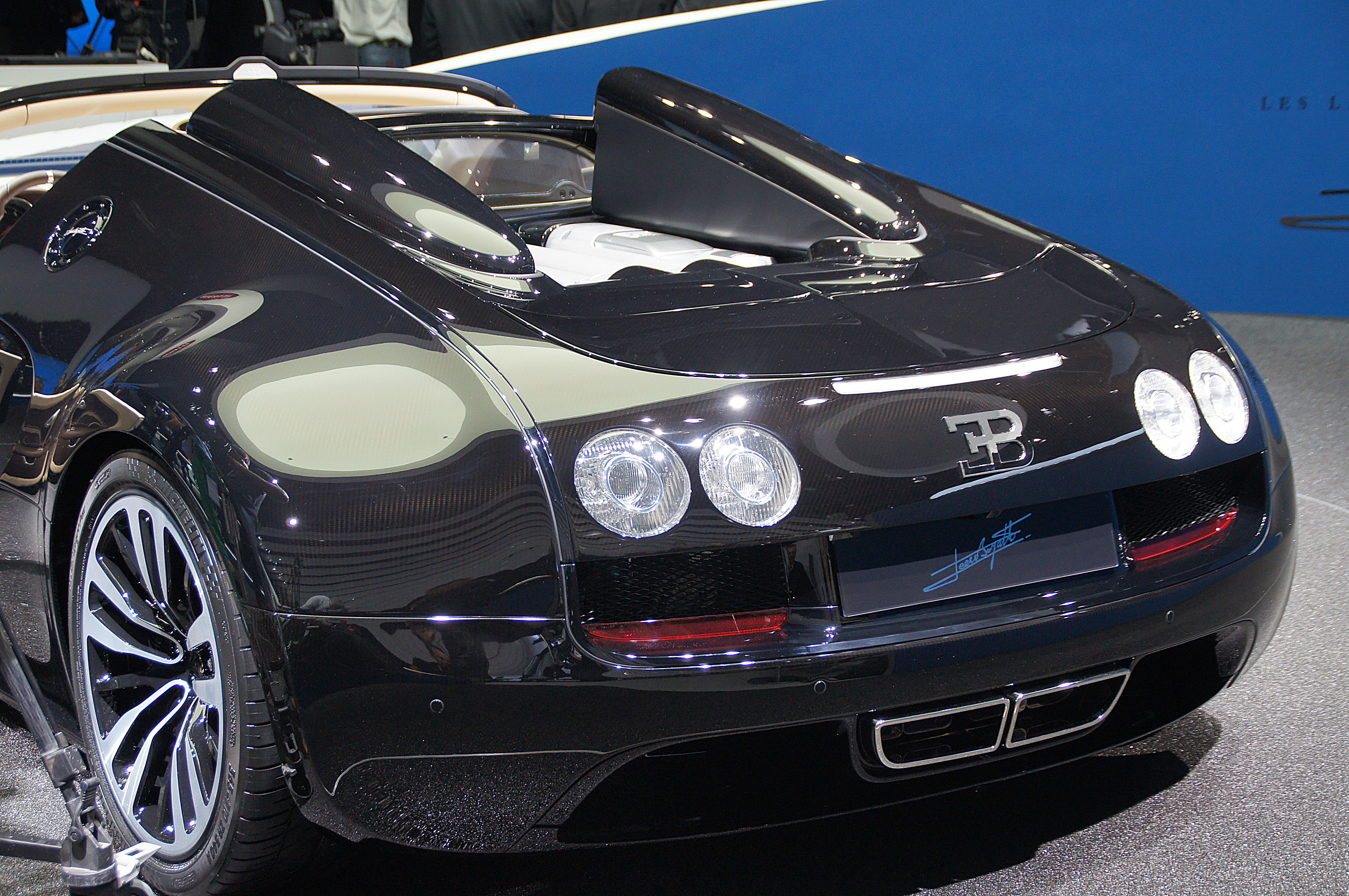 Bugatti Veyron 16.4 Grand Sport Vitesse, Edition Jean Bugatti, view from rear at Frankfurt Motor Show 2013